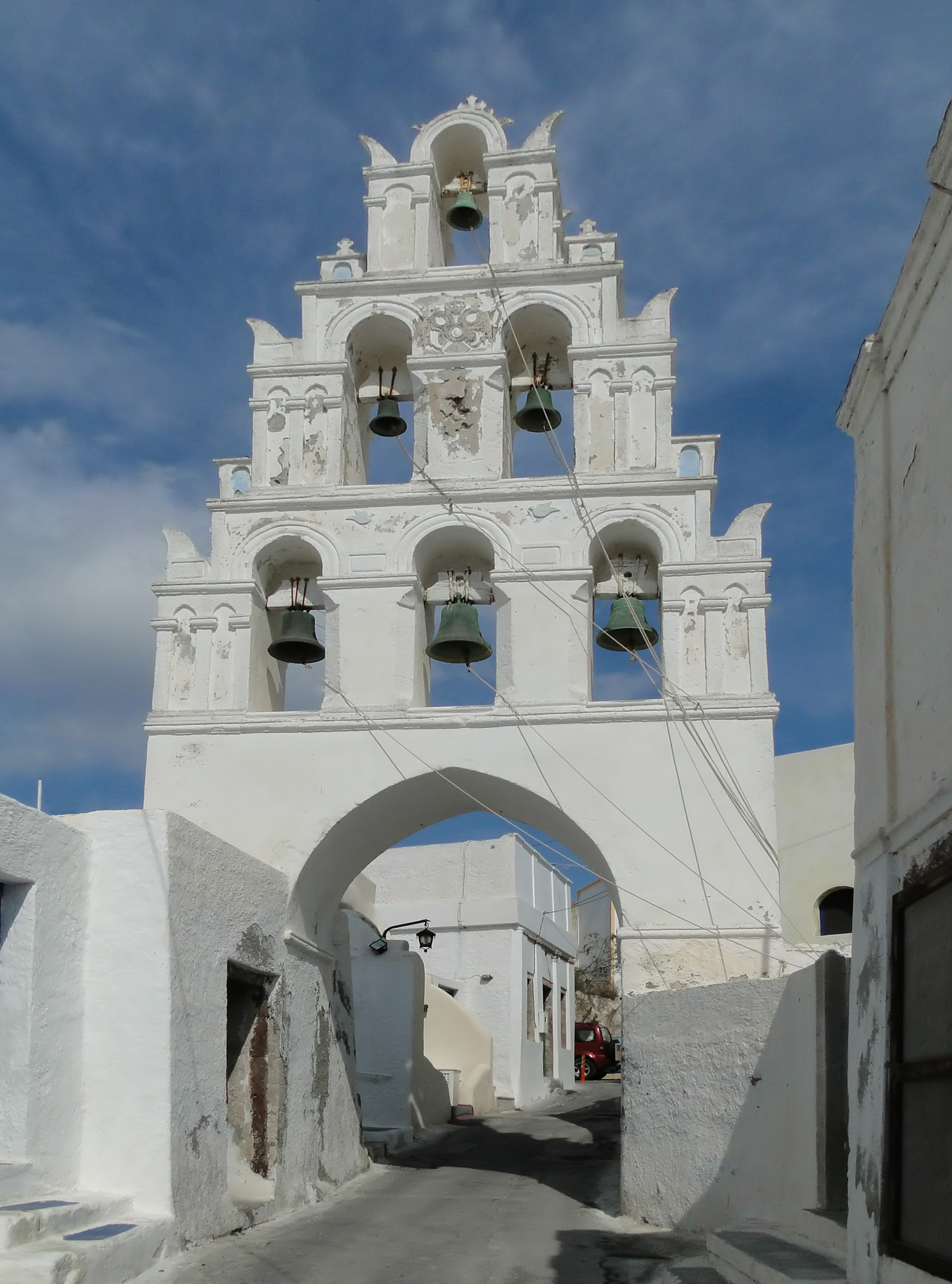 Bell tower of Virgin Mary Church, Megalochori, Santorini, Greece